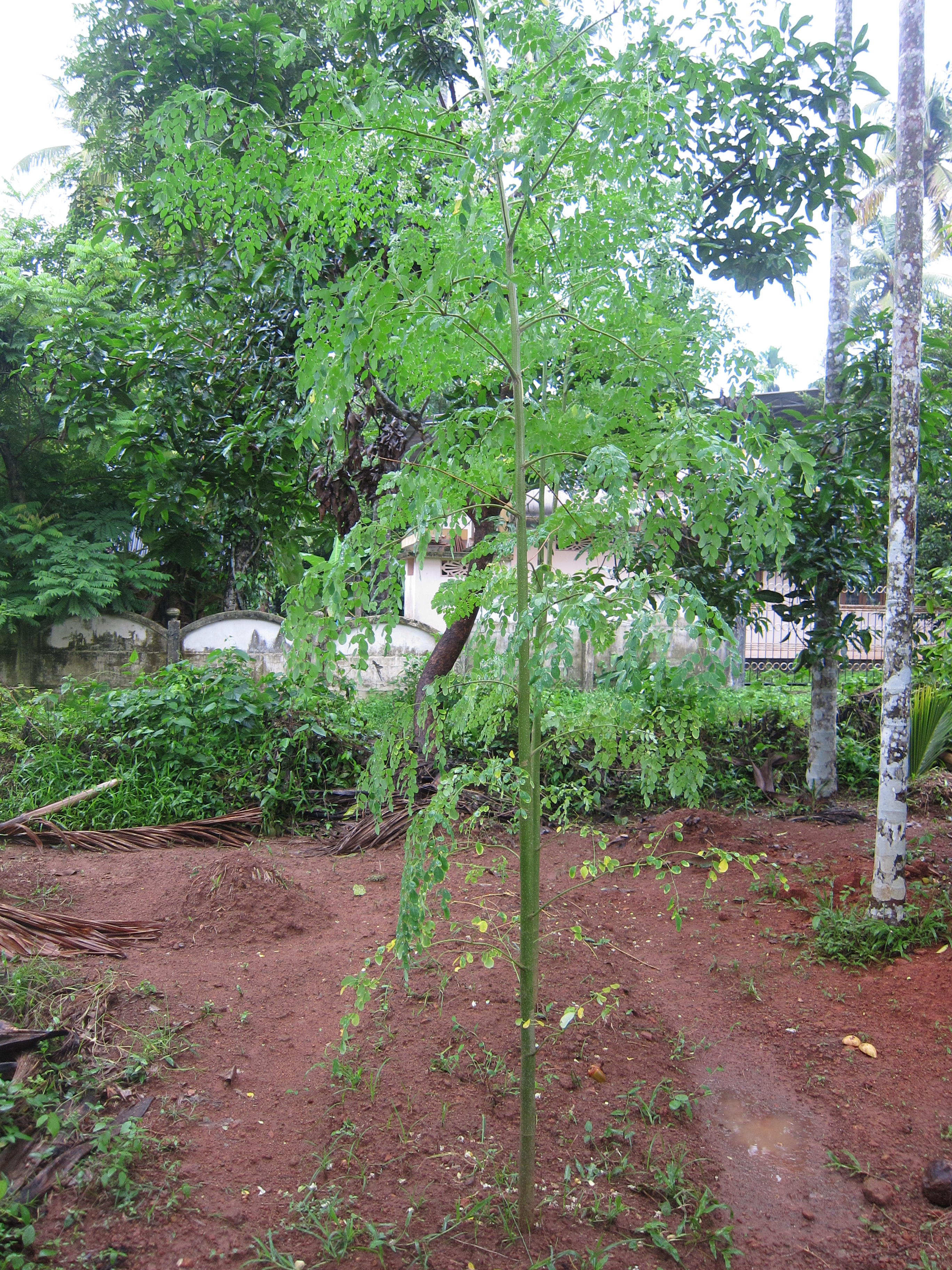 Moringa